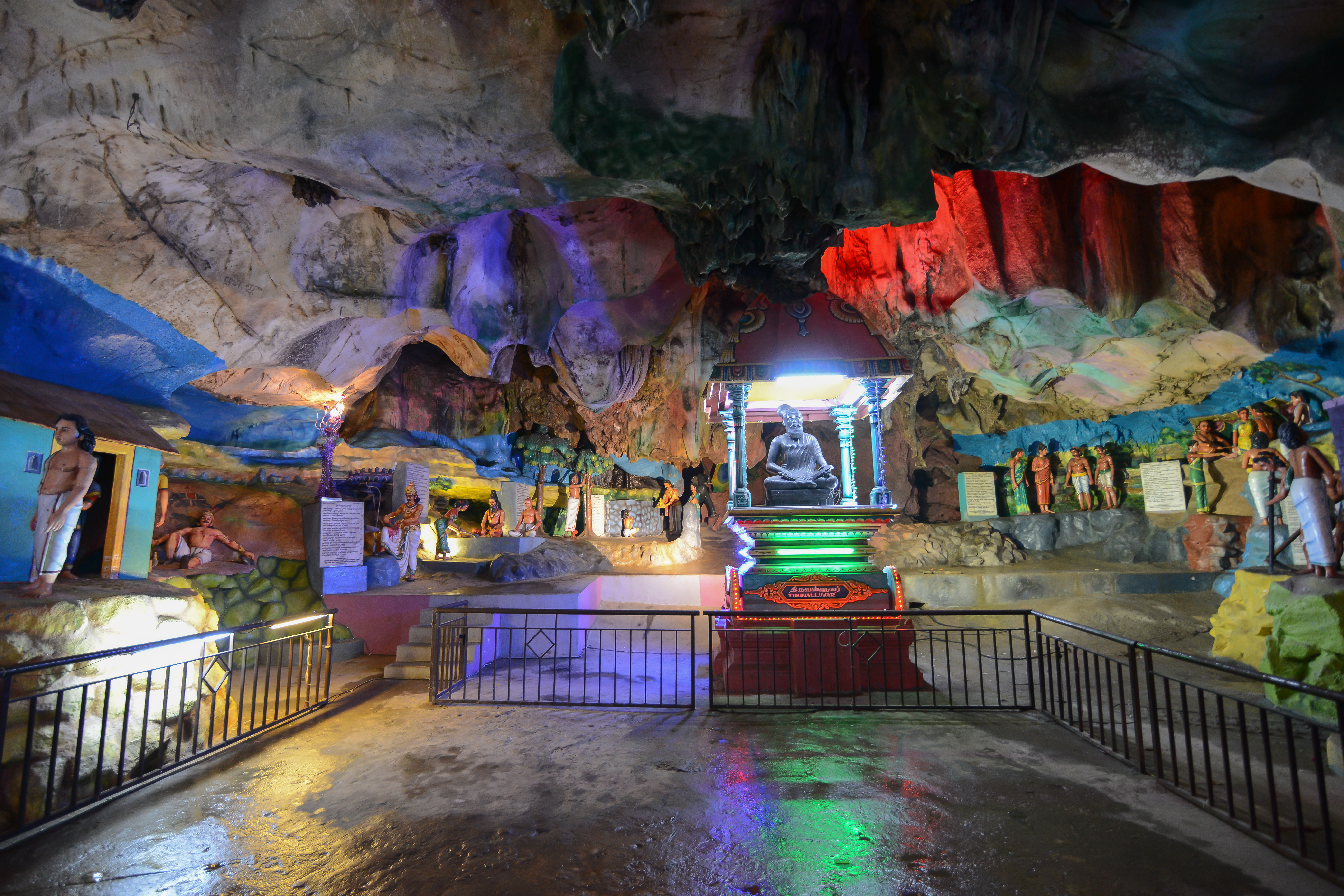 Batu Caves is a limestone hill that has a series of caves and cave temples in the Gombak district, 13 kilometres (8 mi) north of Kuala Lumpur, Malaysia. It takes its name from the Sungai Batu (Batu River), which flows past the hill. Batu Caves is also the name of the nearby village. The cave is one of the most popular Hindu shrines outside India, and is dedicated to Lord Murugan. It is the focal point of Hindu festival of Thaipusam in Malaysia. Wooden steps up to the Temple Cave were built in 1920 and have since been replaced by 272 concrete steps. Of the various cave temples that comprise the site, the largest and best known is the Temple Cave, so named because it houses several Hindu shrines beneath its high vaulted ceiling